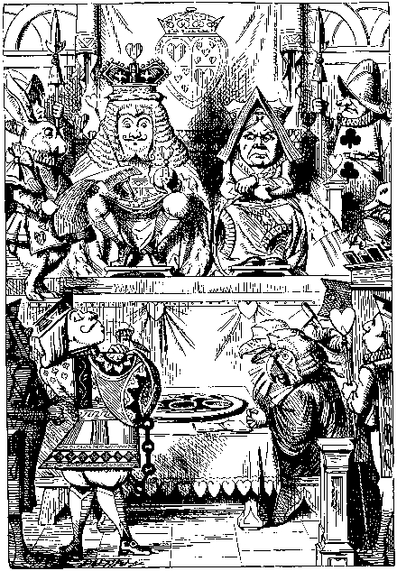 The King and Queen of Hearts from Lewis Carroll's Alice's Adventures in Wonderland